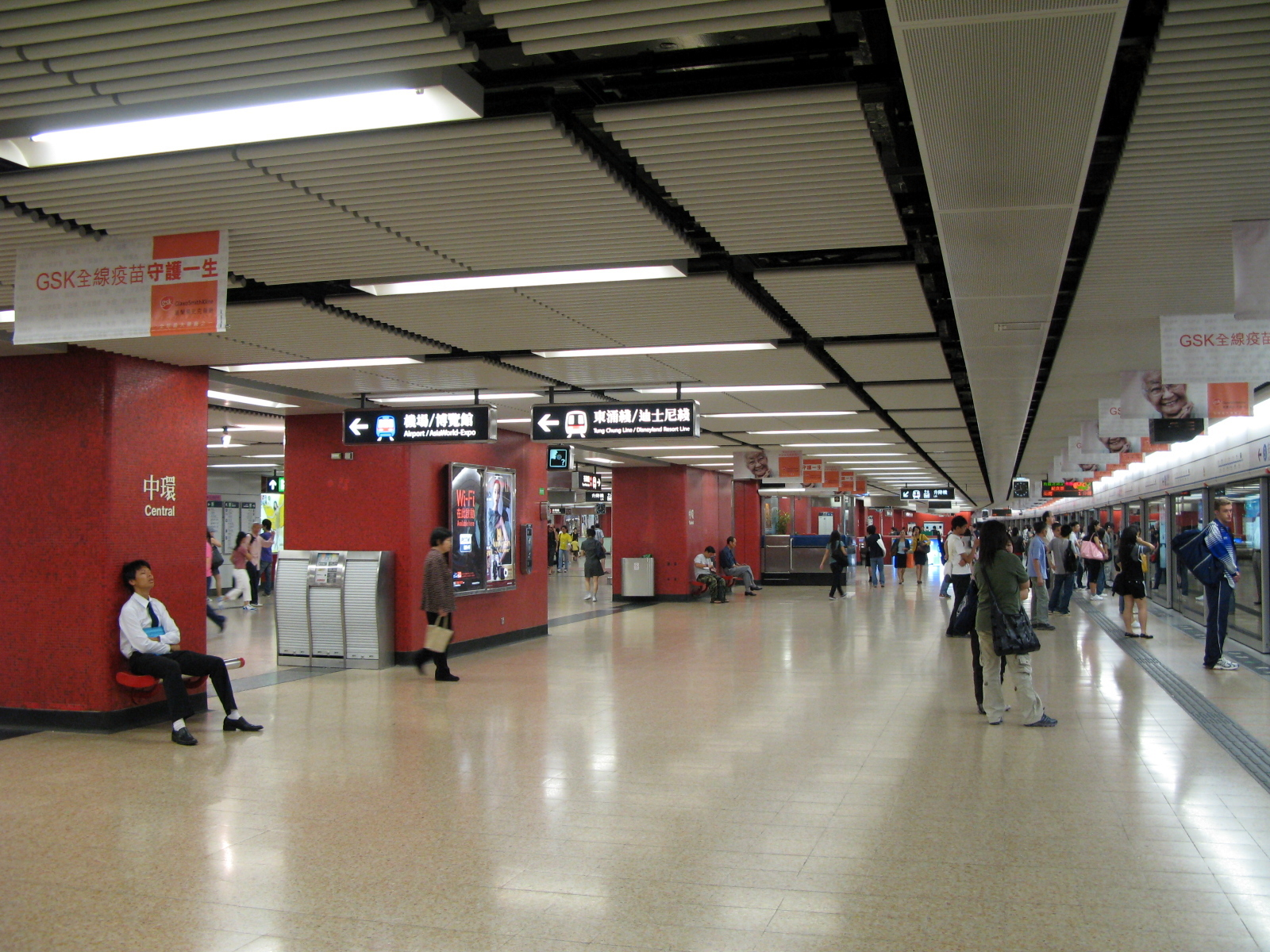 MTR Central station Platform 3